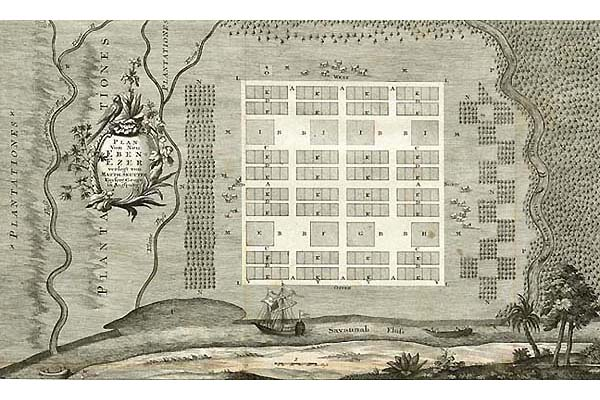 The settlement of New Ebenezer in the Englisch colony of Georgia, founded 1736. Text: German artist Philip Georg Friedrich von Reck drew a map of New Ebenezer during his visit to the settlement in 1736. New Ebenezer, located on the bluffs above the Savannah River, was the second settlement established by the Georgia Salzburgers, a group of Protestants expelled from the Catholic province of Salzburg in 1731.